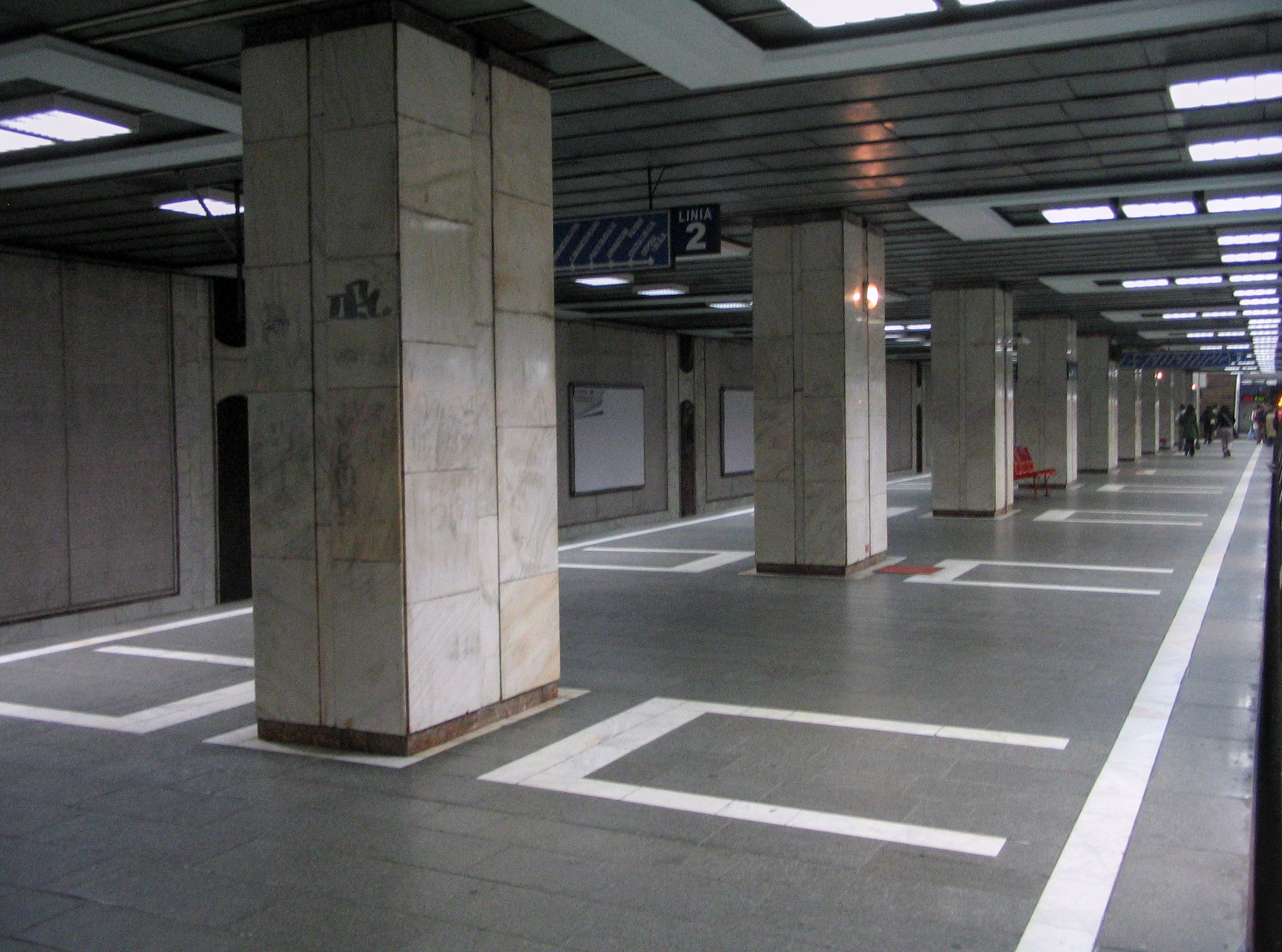 Inside the Aviatorilor metro station, Bucharest, Romania